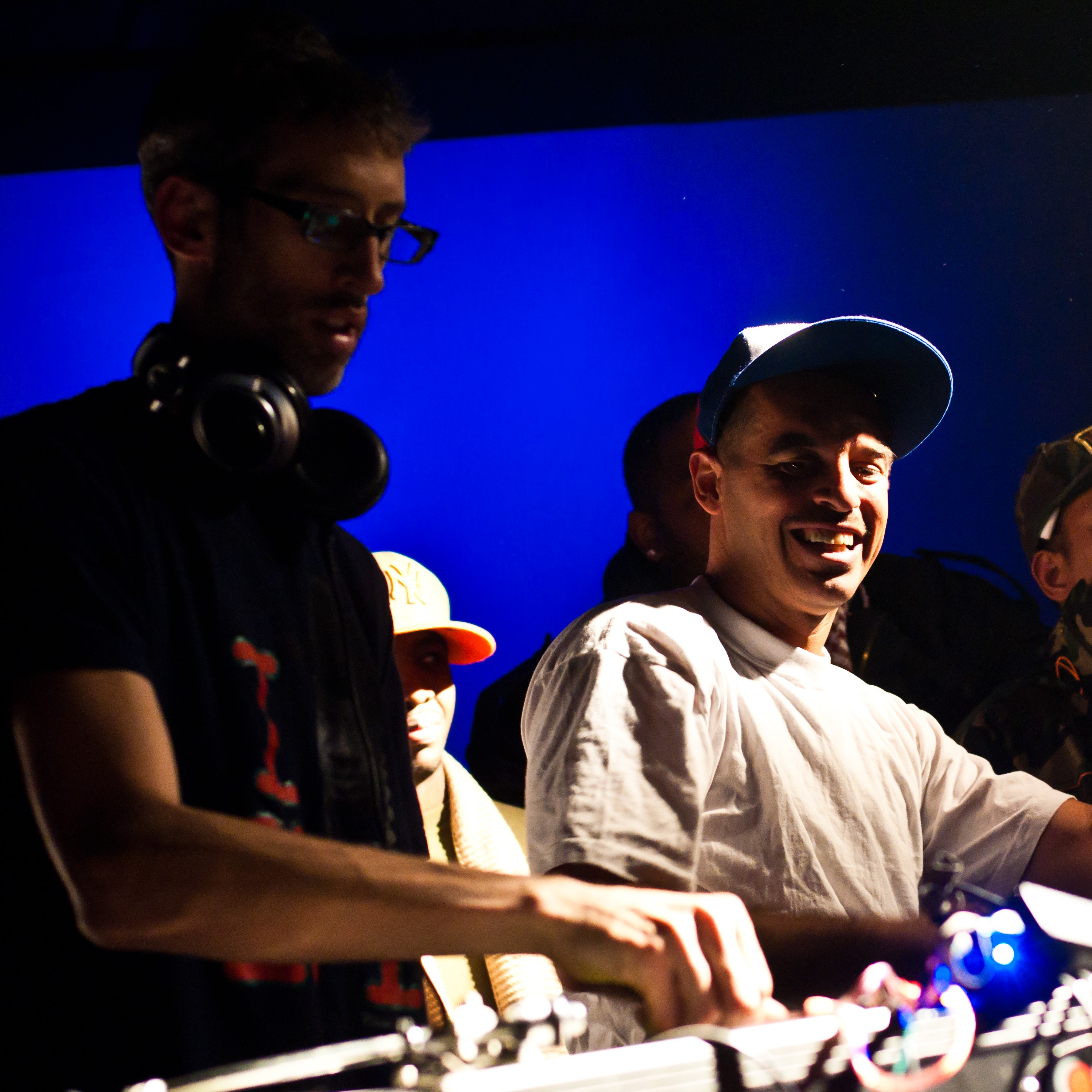 Adrian "Stretch Armstrong" Bartos and Robert "Bobbito" Garcia DJing together at Le Poisson Rouge in New York City.